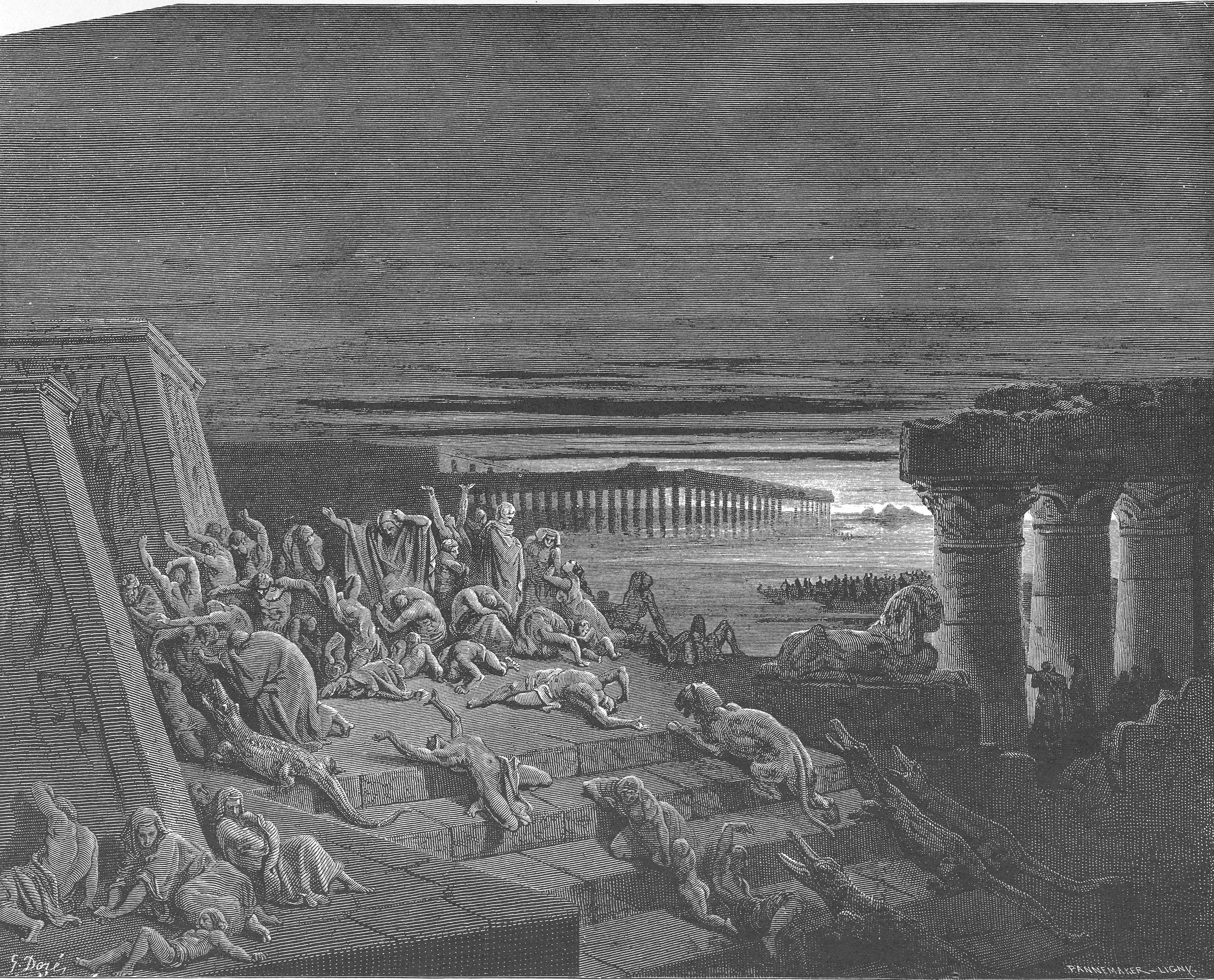 The Ninth Plague: Darkness (Ex. 10:21-23)